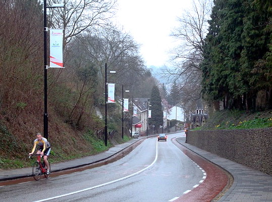 Valkenburg aan de Geul, Netherlands. View of Cauberg near Cauberg Cemetery.